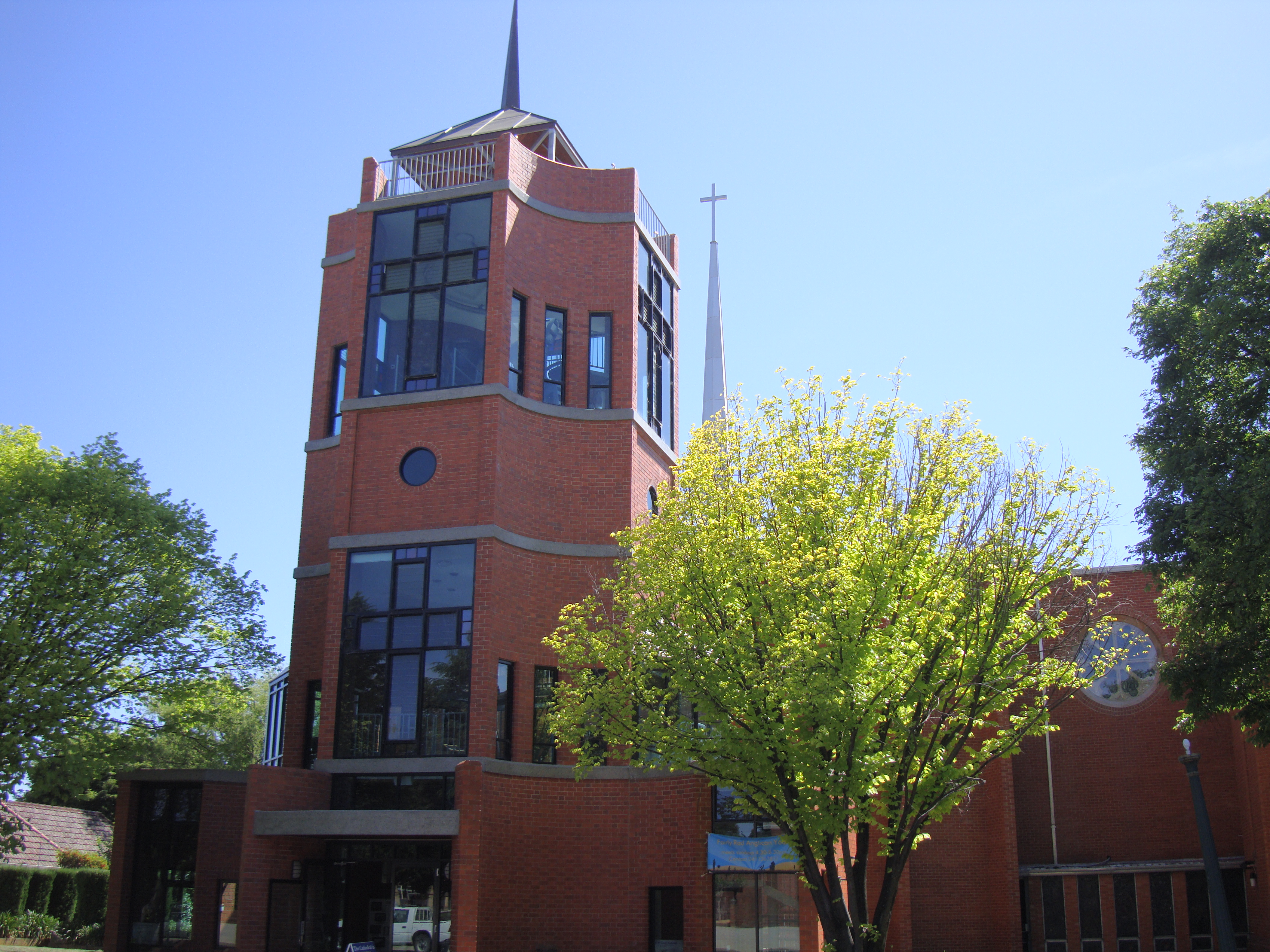 Photograph of All Saints' Cathedral, Bathurst, New South Wales, Australia